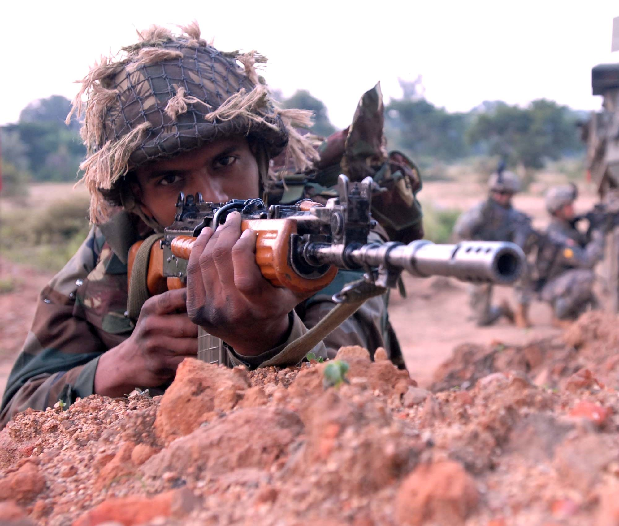 An Indian army soldier during Exercise Yudh Abyas 09, a bilateral exercise involving the Armies of India and the United States.